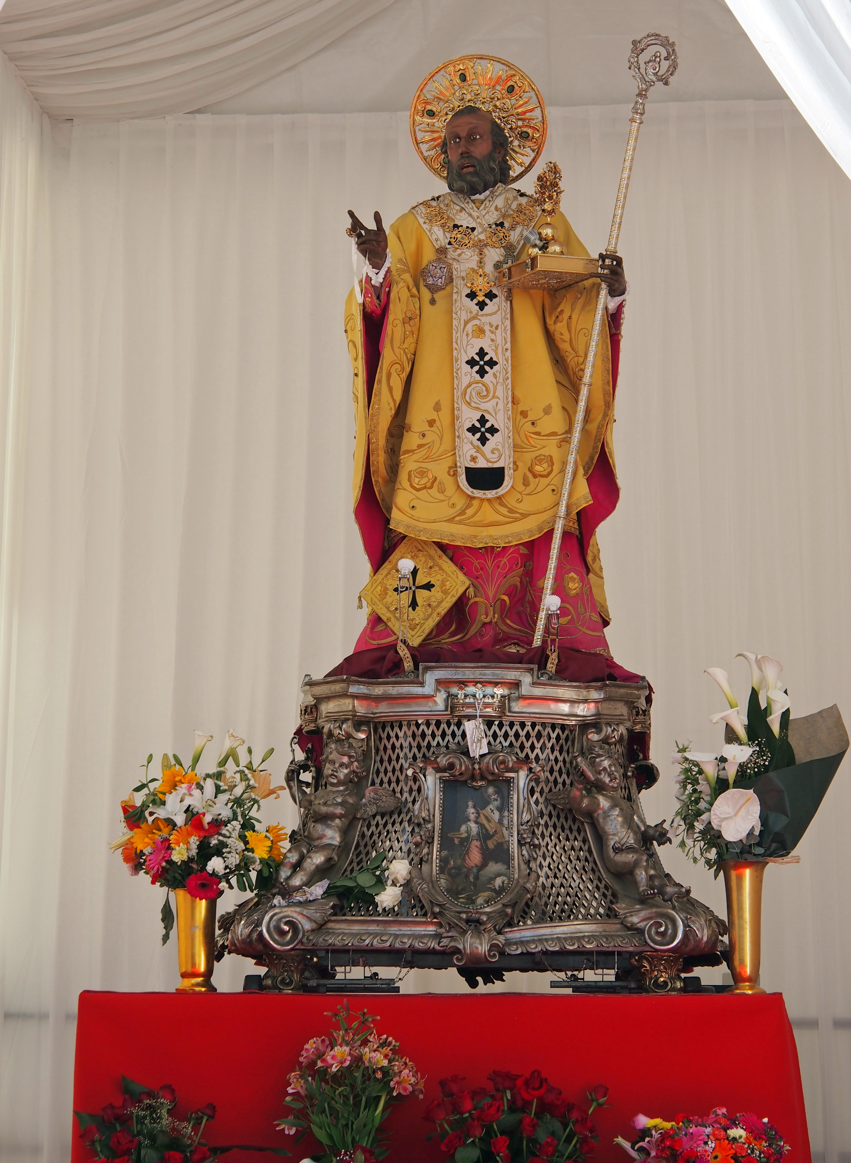 Statue of the Saint Nicholas